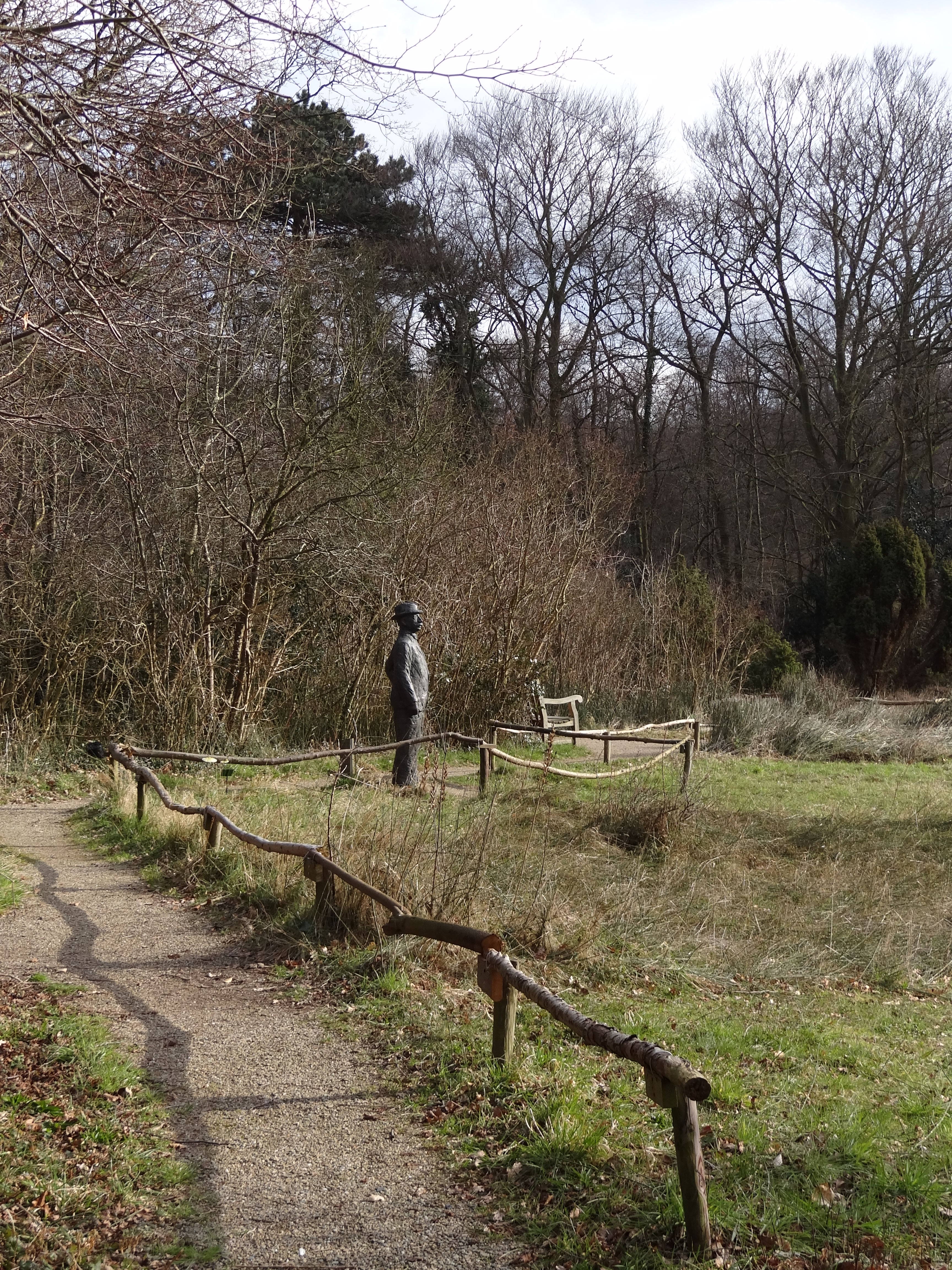 Thijse's Hof - Bloemendaal (februari 2013)